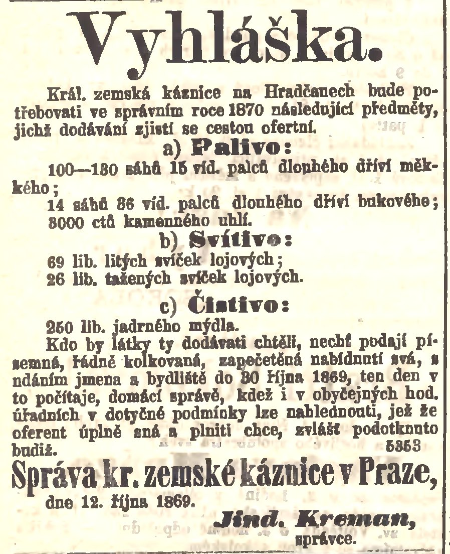 Classified ad, announcing a public tender for various products to be used by a prison in Hradčany, Prague (present-day Czech Republic)